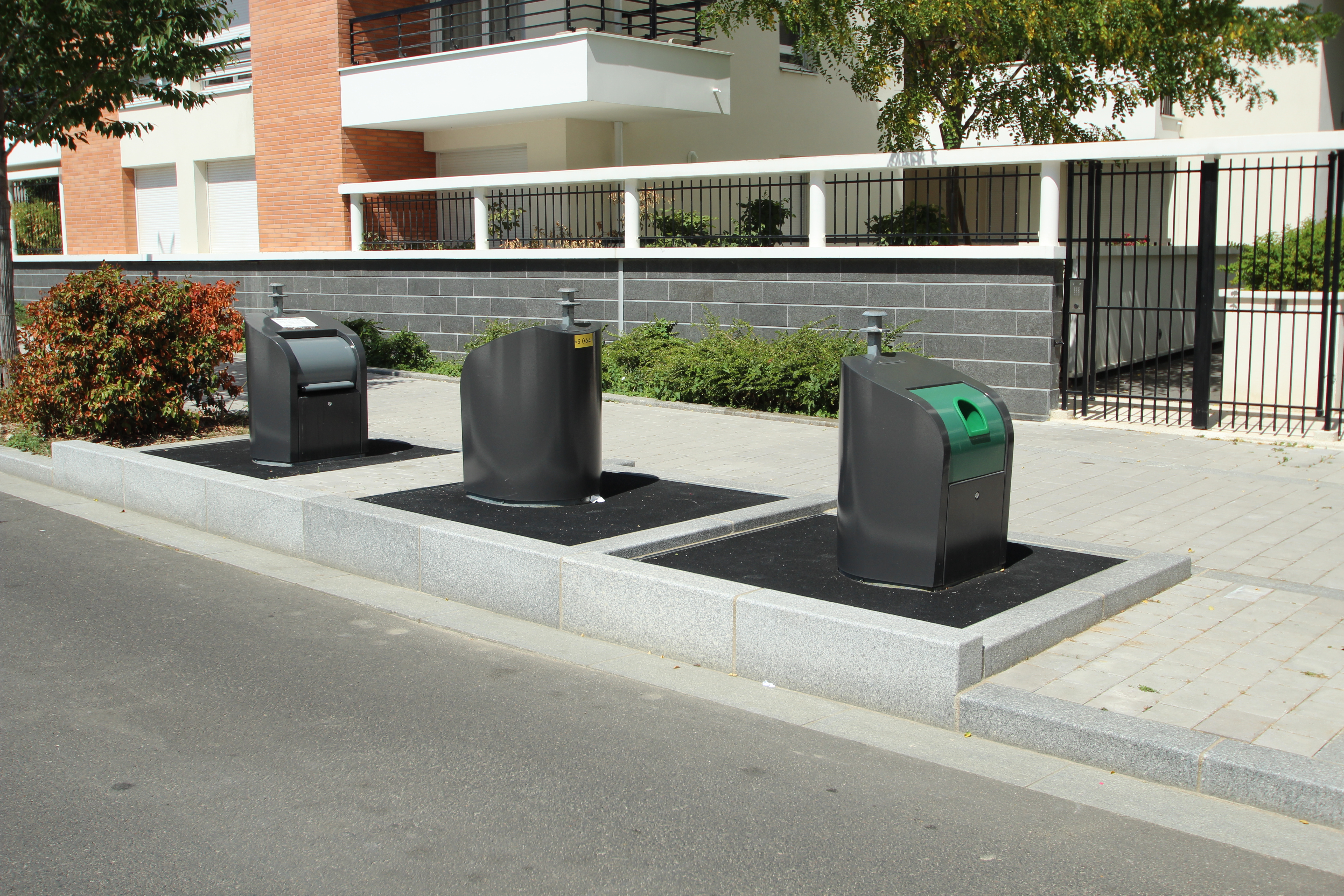 View of Mail Commandant Cousteau in Massy, Essonne, France. This image was uploaded as part of L'Été des villes 2015.